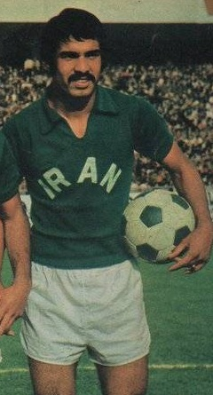 Parviz Mazloomi, current Esteghlal F.C. head coach as a player of Iran U-23 team in 1970's